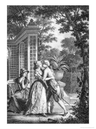 "First Kiss of Love" from The New Heloise by Jean-Jacques Rousseau